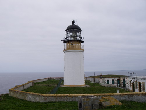 Copinsay Lighthouse